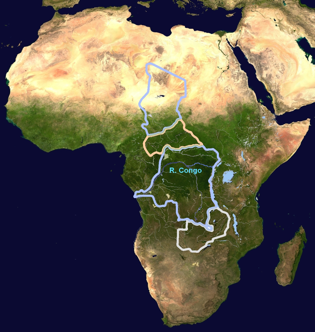 Montage map of Africa using Commons NASA sattelite photo and svg blanks to show Central African musicological region and rainforest - river system enhanced.